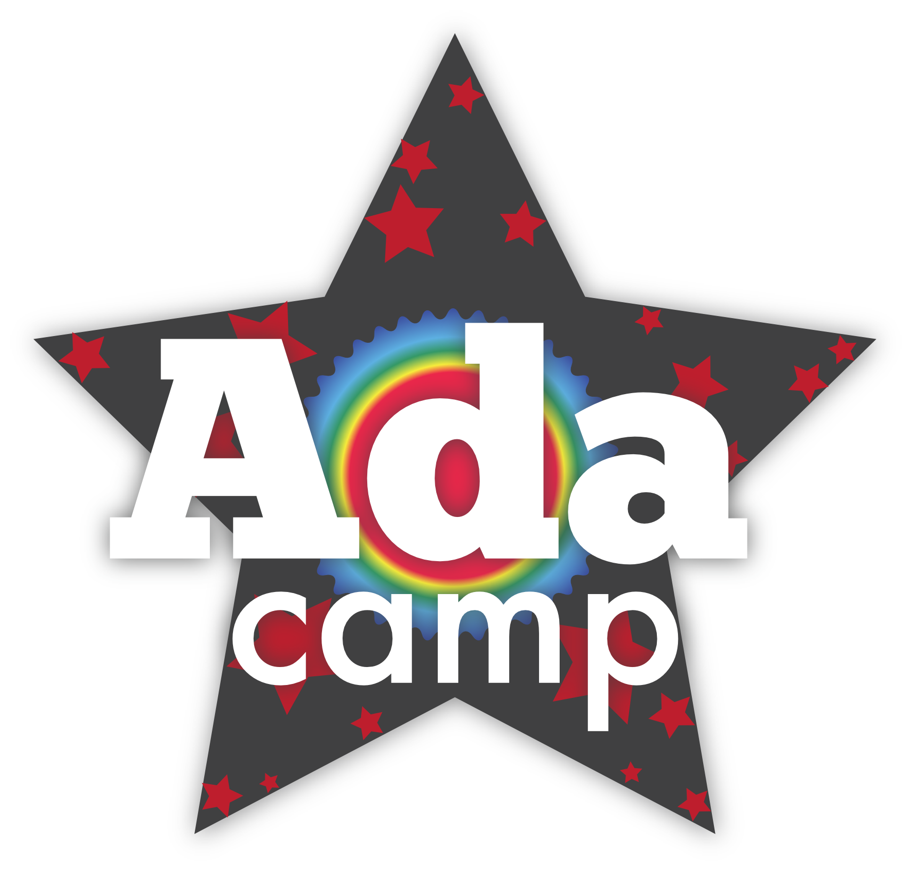 Ada Camp logo